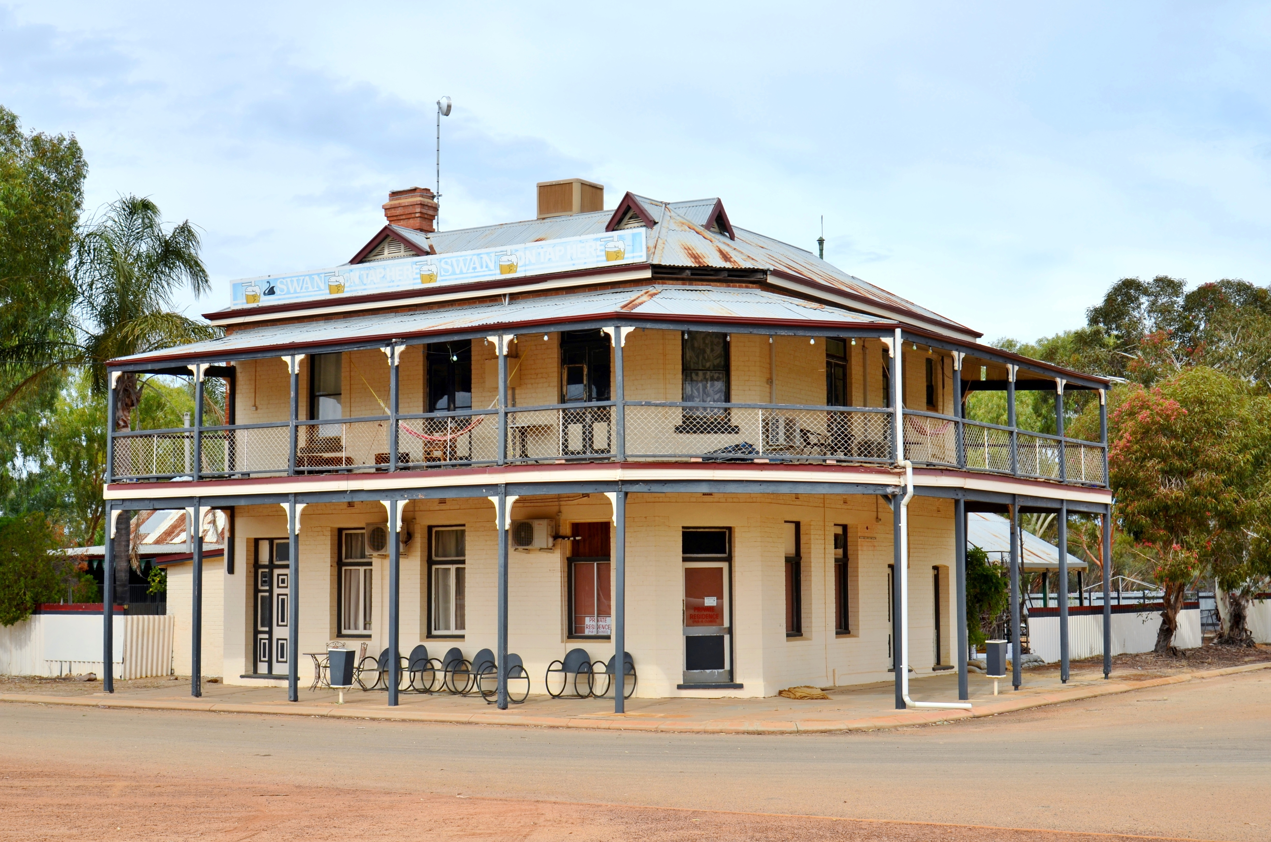 View of the former Burracoppin Hotel, now a private residence in Burracoppin, Western Australia.